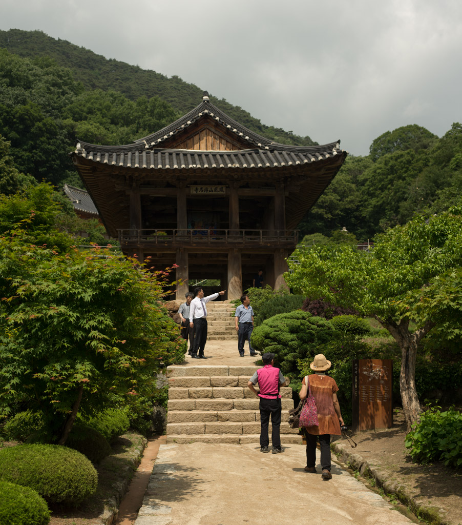 a Buddhist temple located near Mt. Bonghwang in Gyeongsangbuk-do, South Korea, founded in 676.